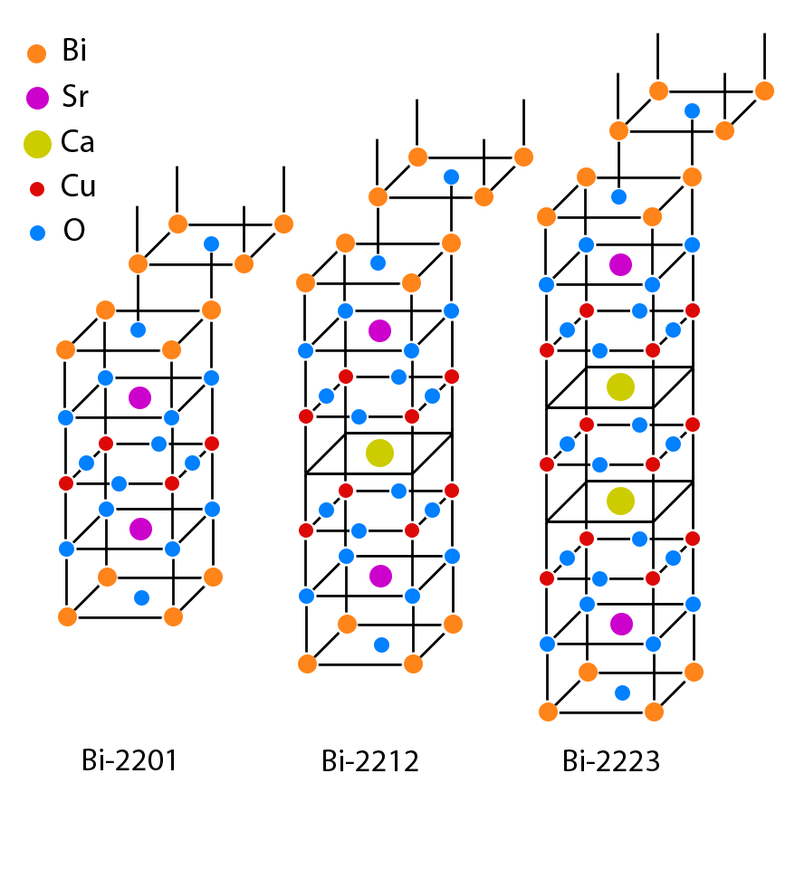 Bi-2201, Bi-2212 and Bi-2223 lattice